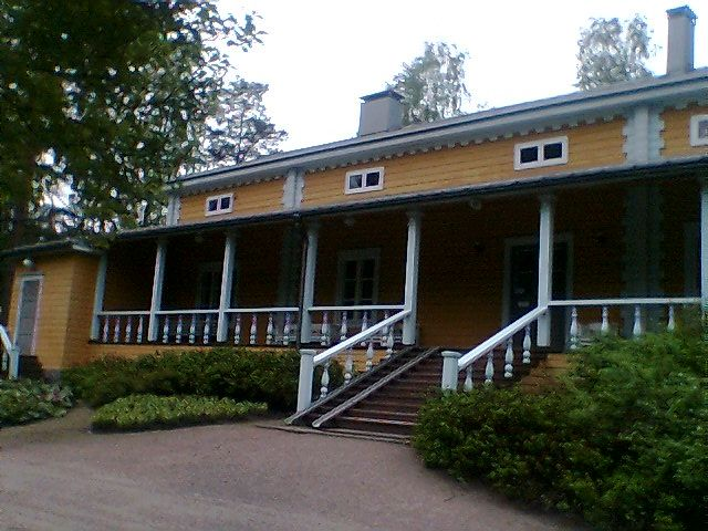 The former rectory of Mantyharju was built in the early 19th century. It was built to replace the original rectory that had fallen into ruin. The building was a rectory up until World War II, when it was reverted into several apartments for refugees of war. Afterwards it housed local church employees. In the 1960's the rectory was reverted into a museum.